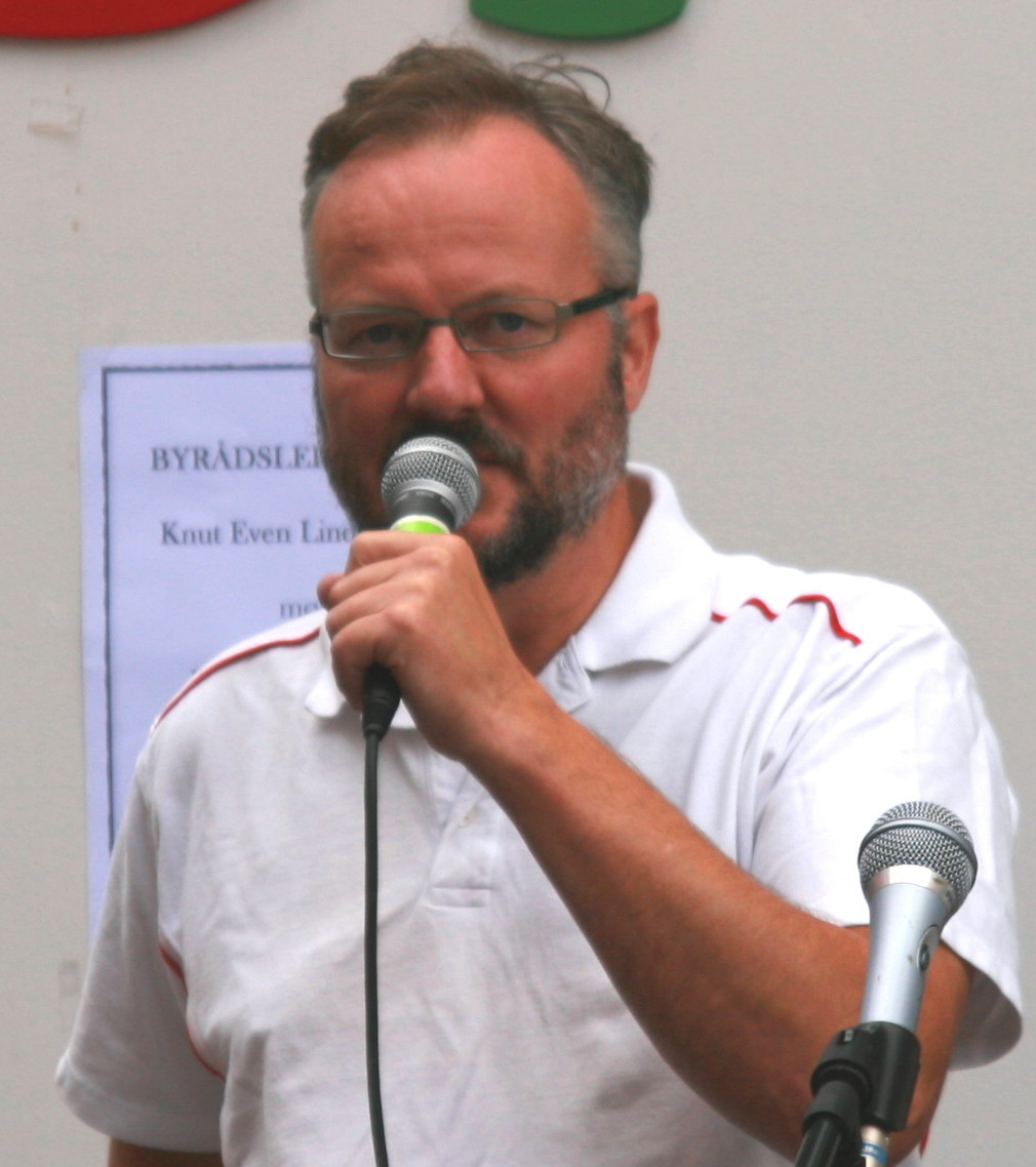 Peter N. Myhre, former Mayor of Oslo, Norway.